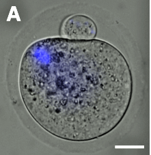 Figure 3. Sperm Swims Around within the PVS Prior to Fertilization 3.A. Typical morphology of a MII oocyte with the meiotic chromosomes located in one “shoulder.” Scale bar= 20 μm.